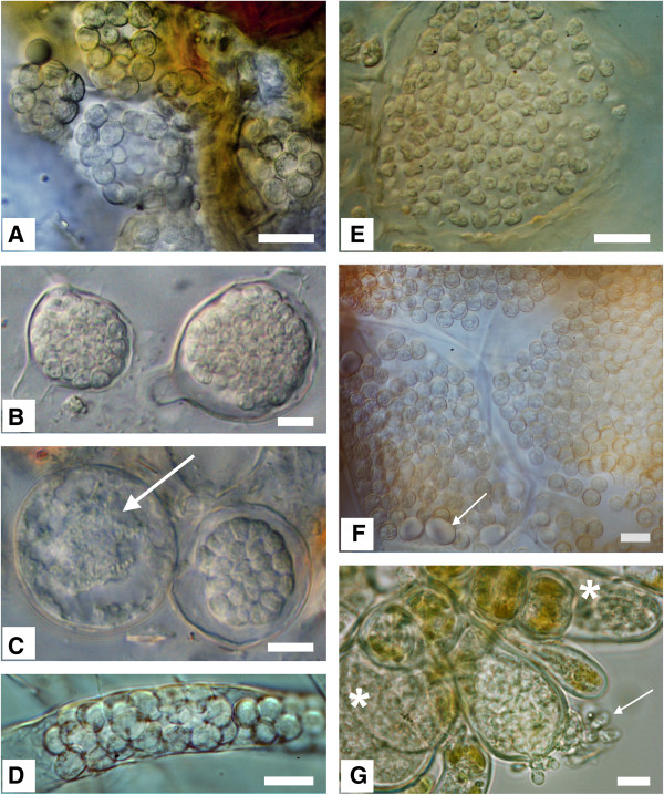 Morphology of resting spores from selected phytomyxids. Bar=10 μm. A: Sorosphaerula viticola: hollow sporosori in the roots of Vitis sp. B: Woronina pythii: resting spores in Pythium sp. C: W. pythii in Pythium sp.: lobose plasmodium, just starting to develop into resting spores (arrow); right more or less mature resting spores. D: Ligniera junci: resting spores in the root hairs of Juncus effusus. E: Maullinia sp. resting spores in Durvillea antarctica. The resting spores are slightly irregular in size and shape. F: Plasmodiophora diplantherae: Resting spores in Halodule sp. Resting spores are in enlarged cells of the host. Arrow: starch grains. G: Maullinia ectocarpii: hatching zoospores (arrow) from an enlarged infected cell of the host Ectocarpus fasciculatus. Asterisk: plasmodia in enlarged host cells.